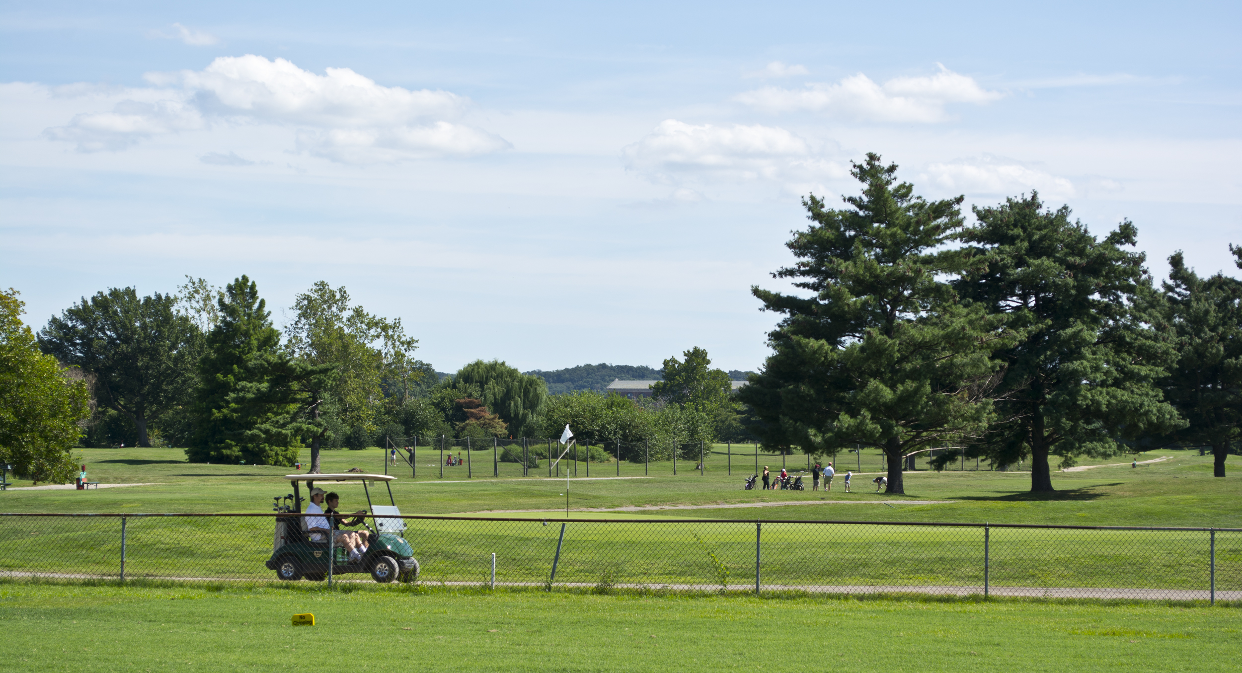 Looking south across the Blue Course fairway at the Red Course at the East Potomac Golf Course in East Potomac Park in Washington, D.C., in the United States.